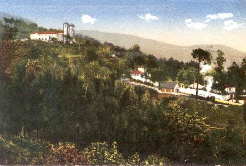 Caminho de Ferro do Monte - Old tramway in Funchal, Madeira